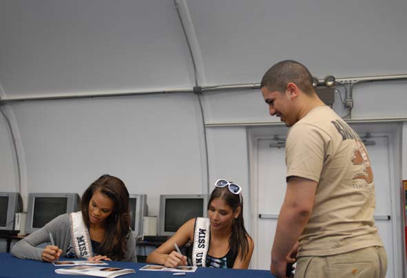 A Trooper from Joint Task Force Guantanamo stands in line for an autograph from Miss USA 2008, Crystle Stewart (left) and Miss Universe 2008, Dayana Mendoza during an MWR meet and greet at Camp America. – JTF Guantanamo photo by Army Pfc. Christopher Vann